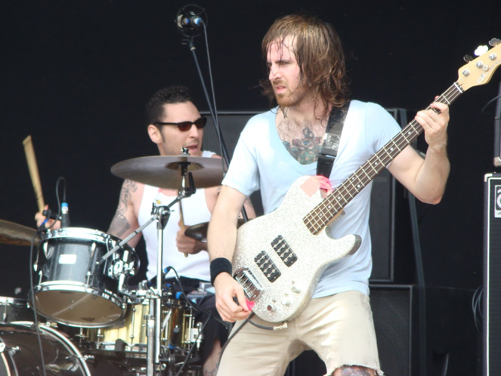 Gods of Metal 2008